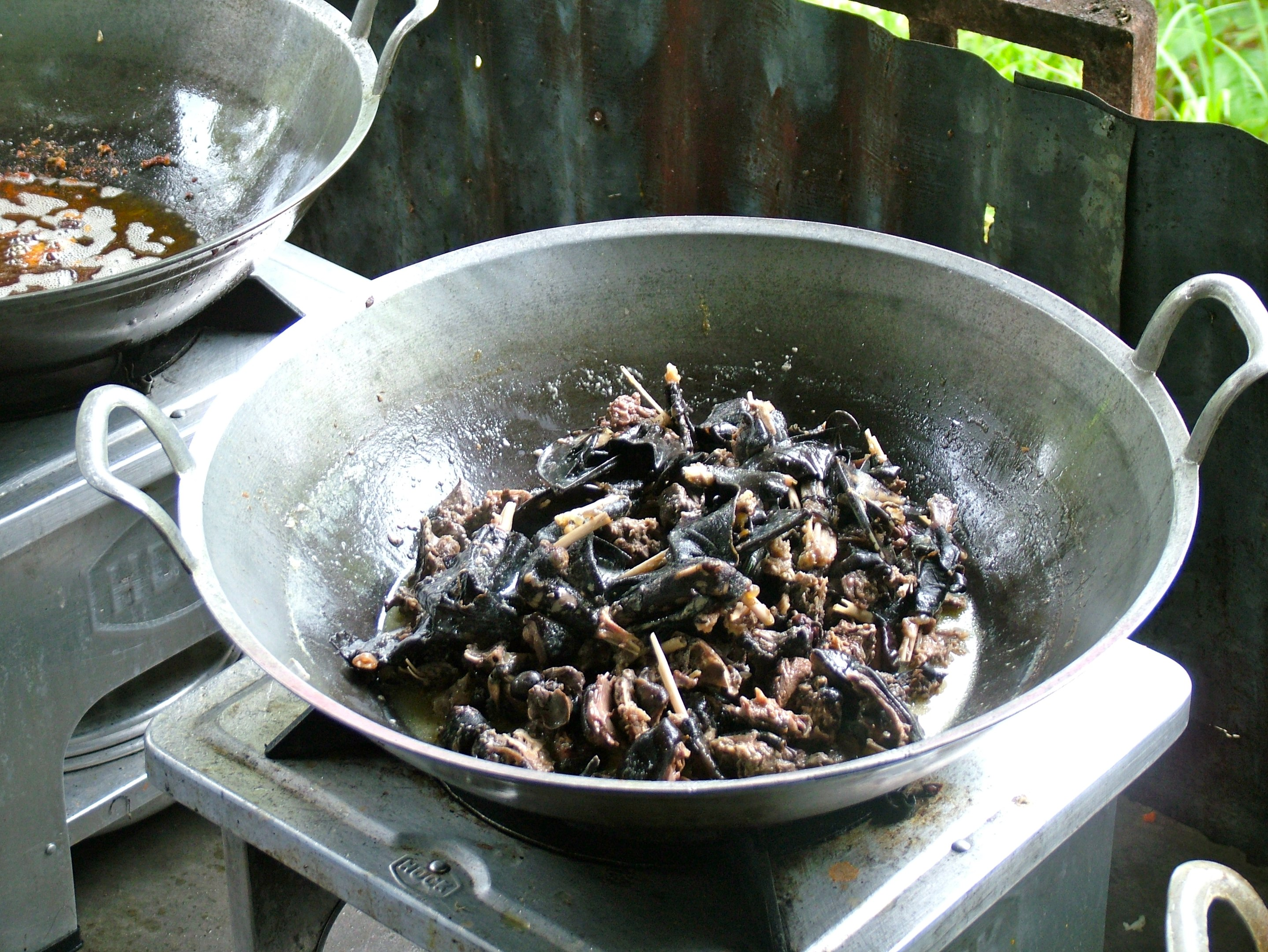 Cooking paniki (fruit bat)